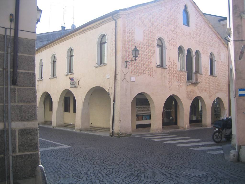 An old house of the historical centre of Oderzo (Treviso, Veneto, Italy).